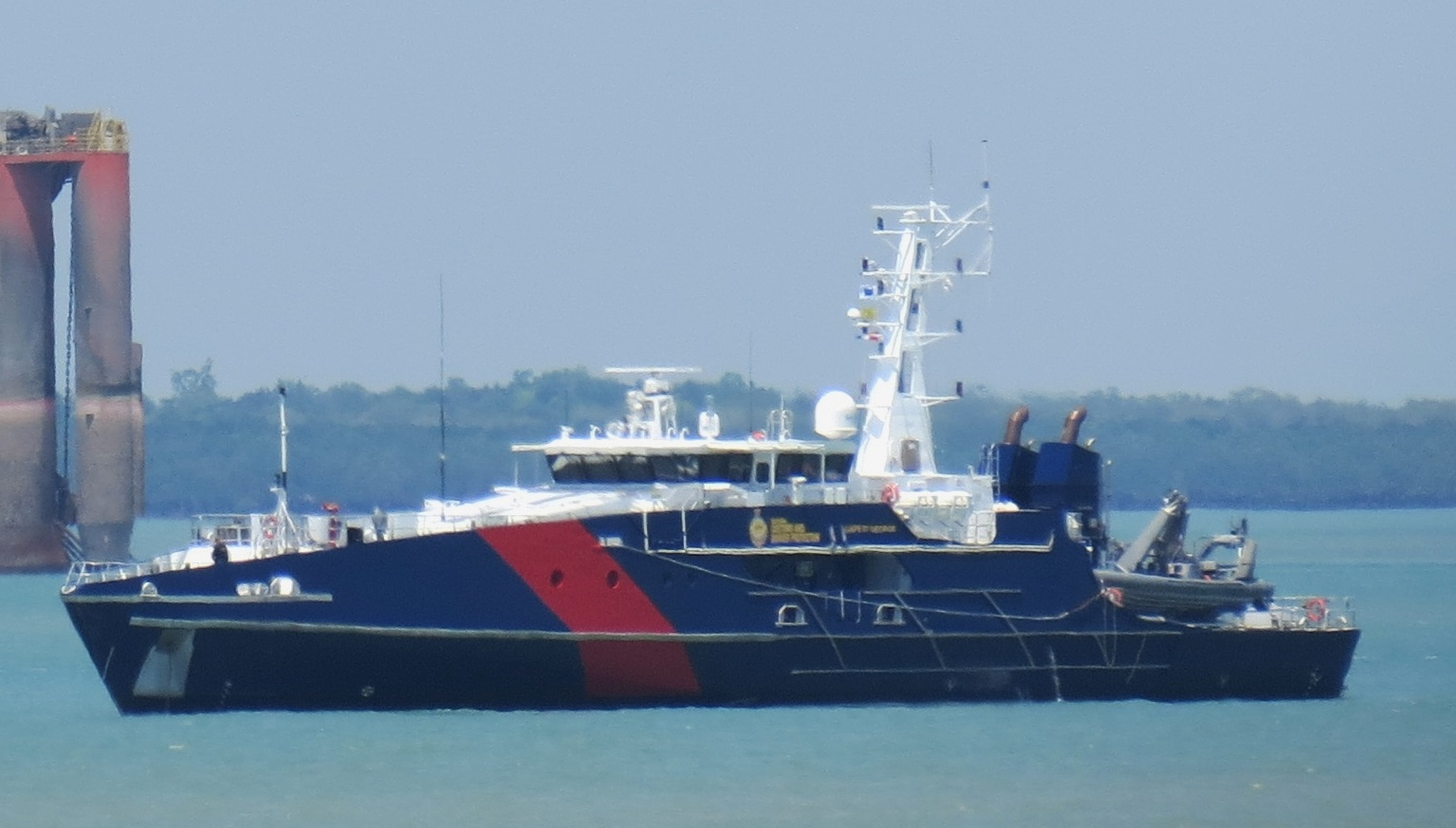 The Australian Customs patrol boat ACV Cape St George on Darwin Harbour in 2014